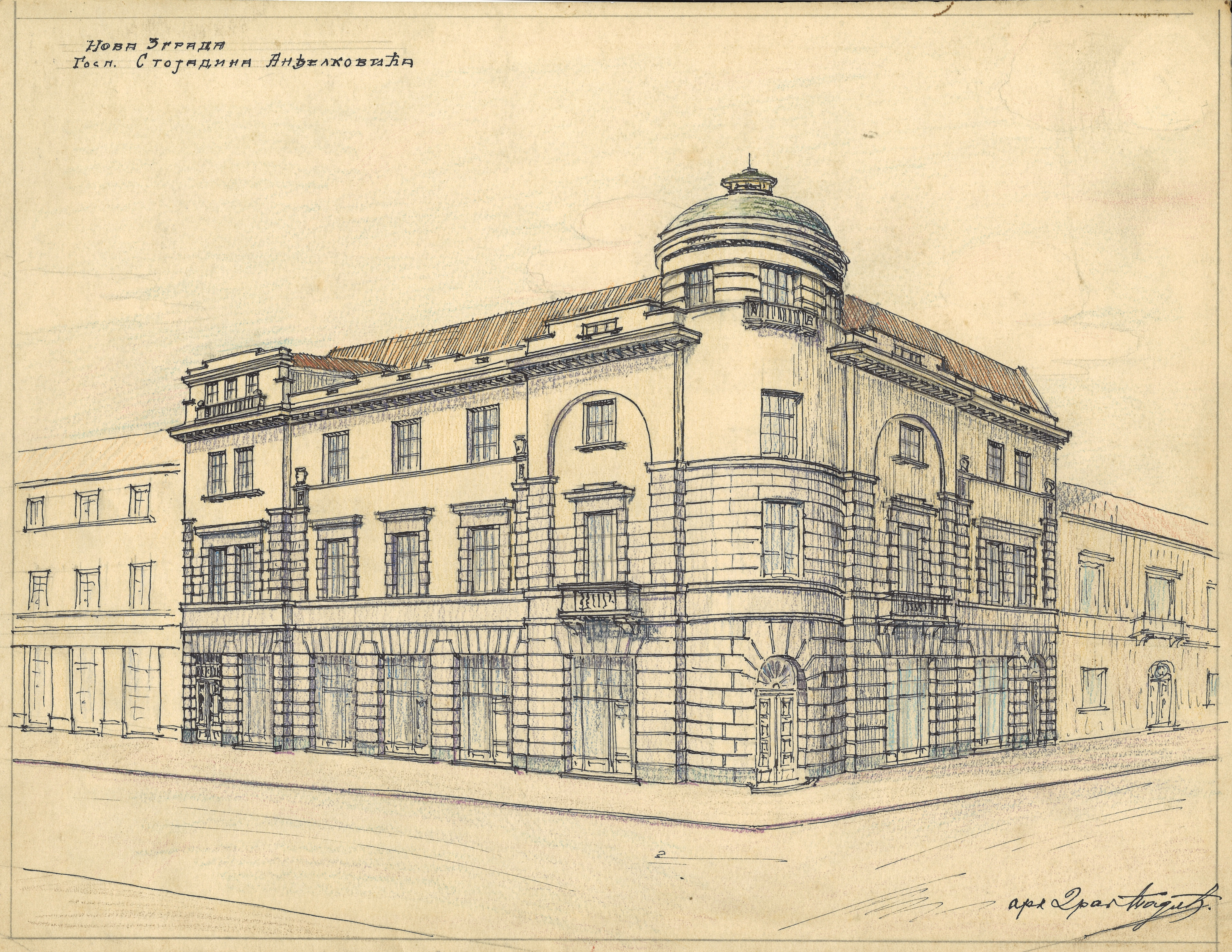 The new house of Stojadin Anđelković. Projected by architect Dragomir Radić.